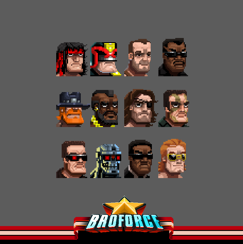 Head sprites from Broforce video game